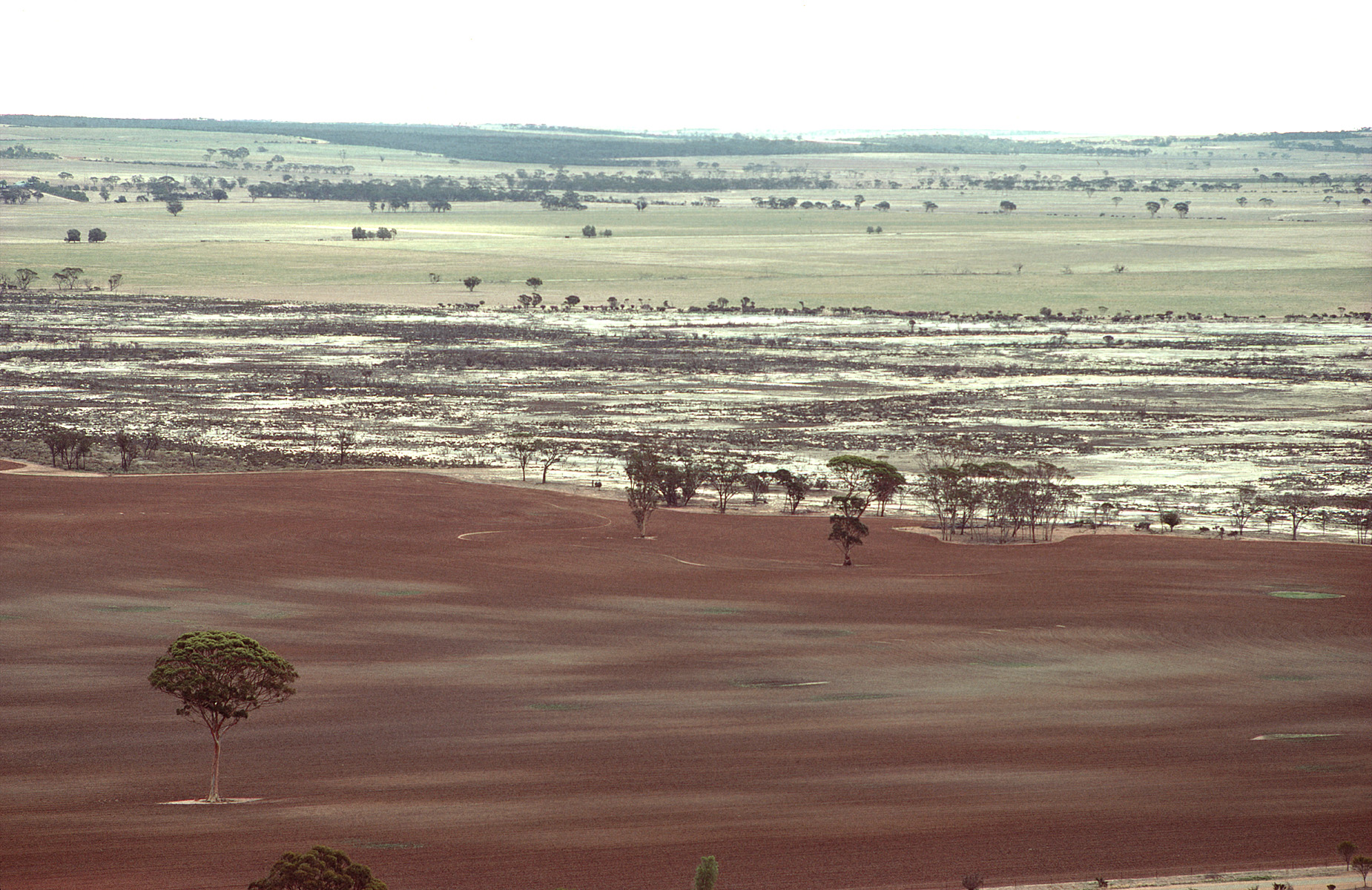 Salinity in the Western Australian wheatbelt near Bruce Rock, WA.